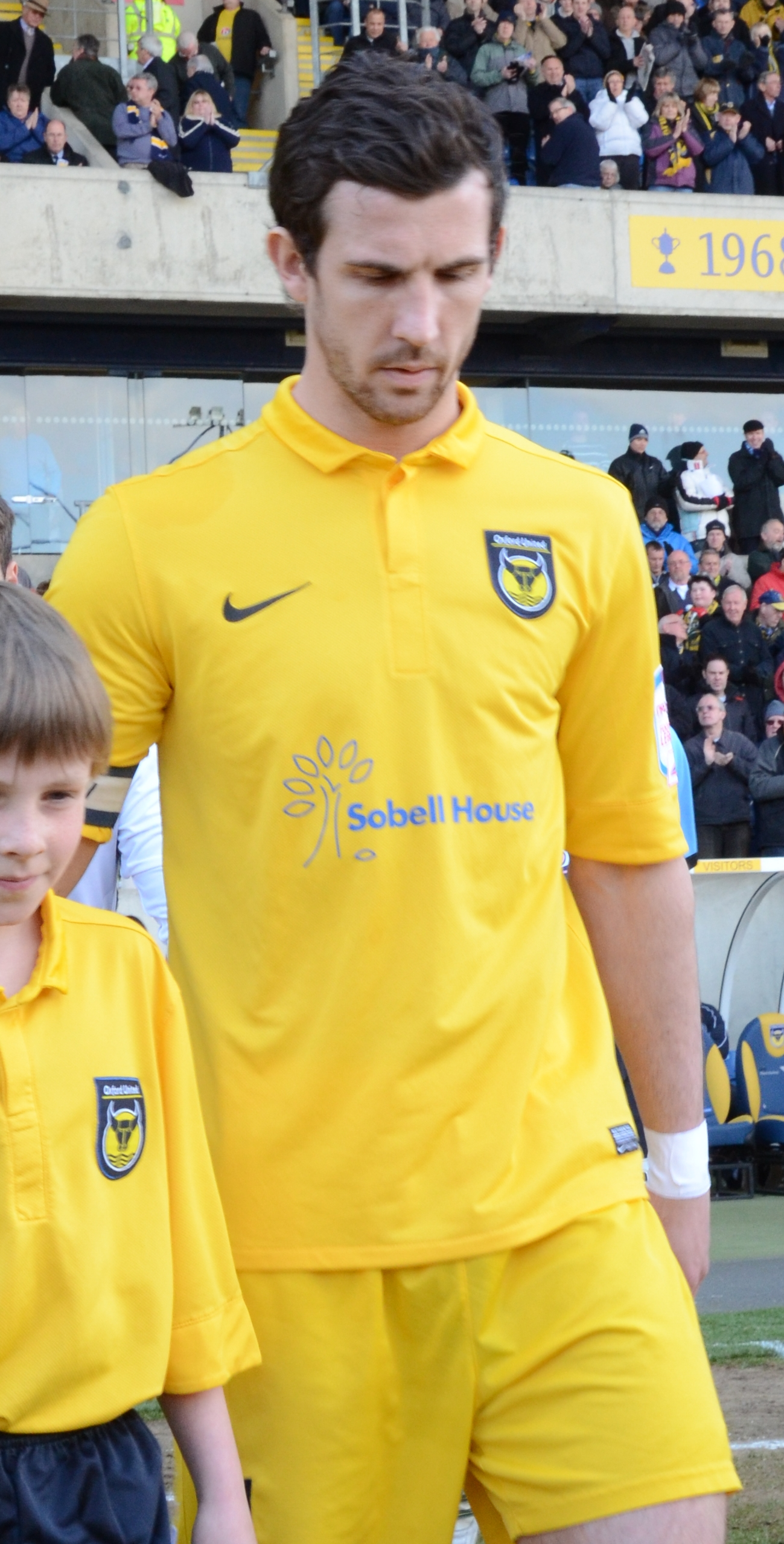 Jake Wright playing for Oxford United against Wycombe Wanderers at the Kassam Stadium, Oxford on 6 April 2013